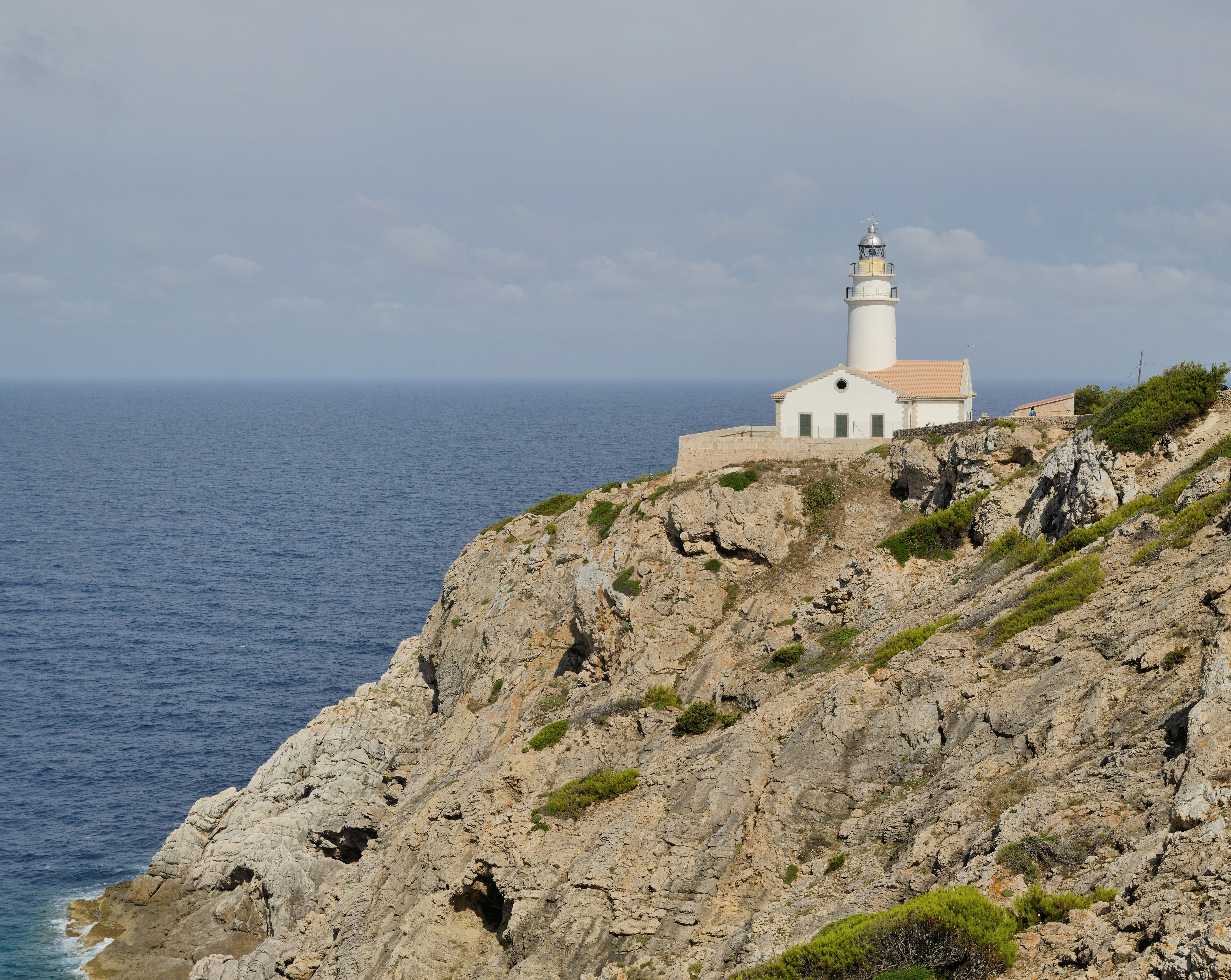 Lighthouse at Cap Capdepera